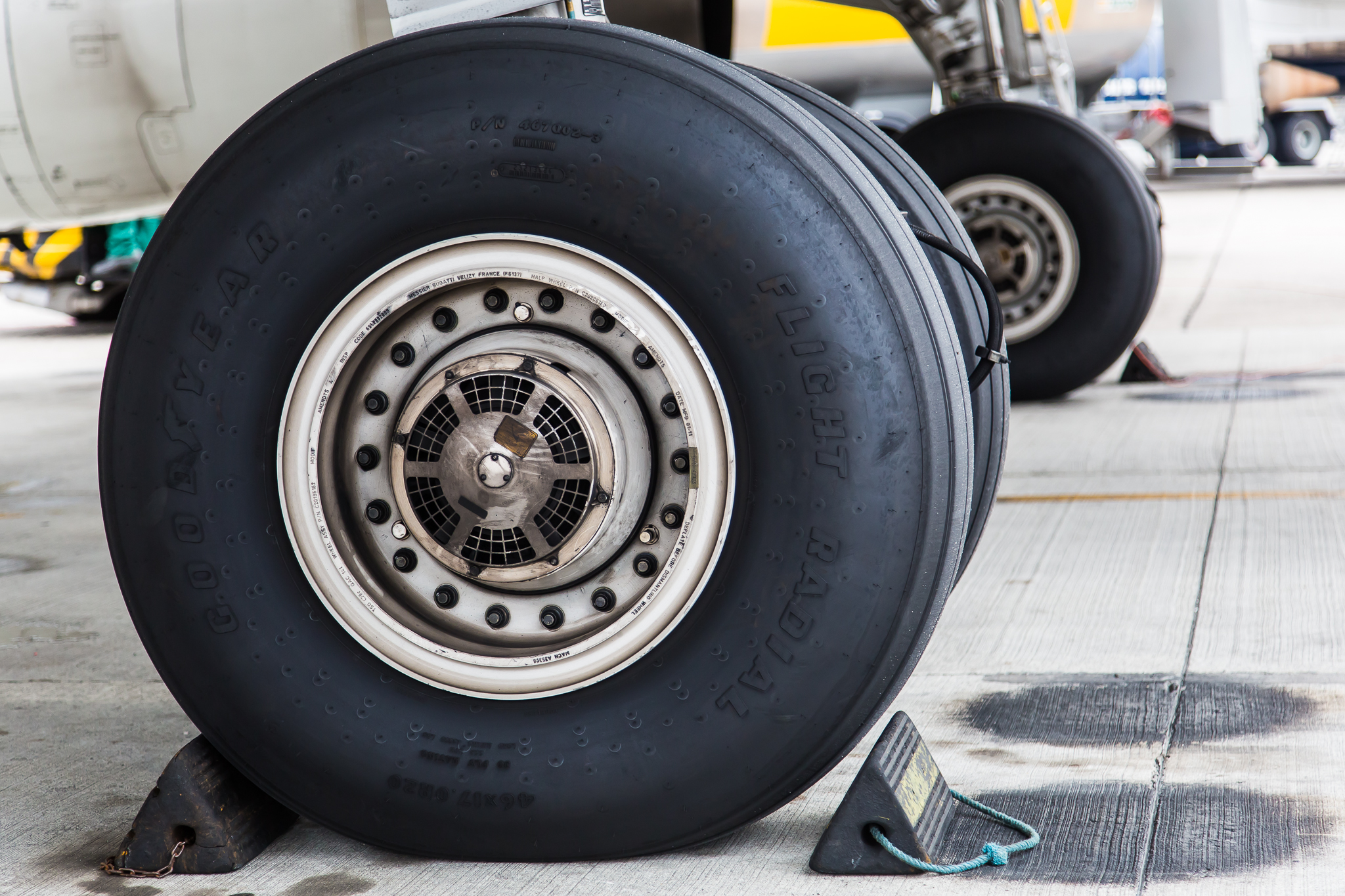 Airbus A318 Landing Gear, featuring a brake fan